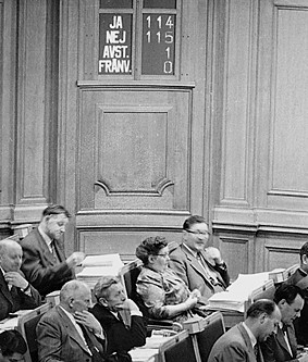 The ATP battle. Voting score board at the parliamentary lower house May 14, 1959 show that ATP has been adopted by only one vote. The 115 'no' votes gave satisfaction to the Social Democratic reservation, while the 114 'yes' votes were given for the committee's non-socialist majority of ATP. Liberal People's Party Ture Königson abstained.